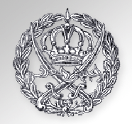 Glubb Pasha's "Arab Legion" unit under British empire in Transjordan, later became part of the army of Jordan.